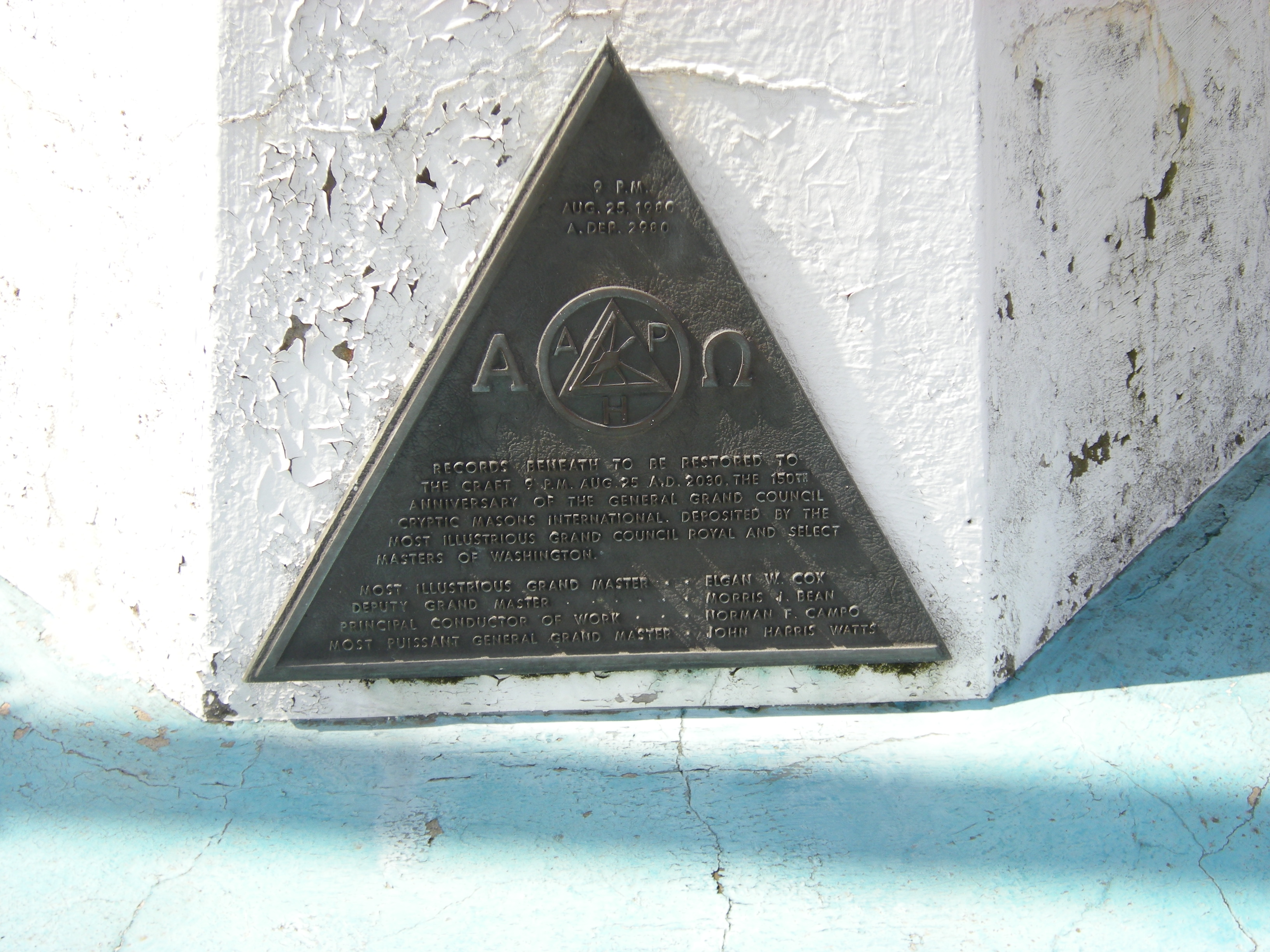 Plaque for time capsule, Puget Sound from Masonic Retirement Center (now Landmark on the Sound Senior Living Community), Des Moines, Washington.